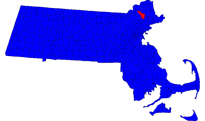 Results of the Massachusetts senatorial election, 2008 by municipality. Blue indicates towns that voted for Kerry, red (Boxford, MA) for Beatty.